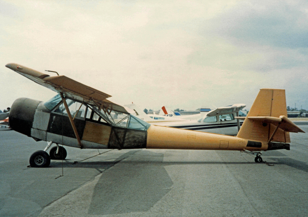 Convair L-13A Husky III N4236K at Van Nuys CA in 1986.